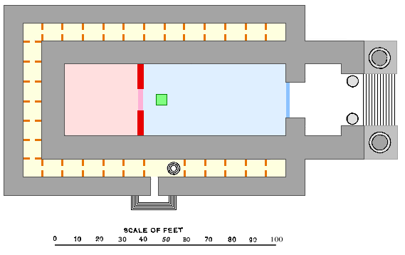 An illustration from the Encyclopaedia Biblica, a 1903 publication which is now in the public domain. Fig. 1 for article "Temple". Plan of the Temple of Solomon. (Colour added by me for clarity). Pale blue = The 'Holy' Pale pink = The 'Holy of Holies' Strong green = Table of Shewbread Strong blue = Curtain Strong pink = Veil Pale orange = Storage/administrative area. This is split up into small cells (Strong orange = walls between these), over 3 floors - a ladder was used to pass between the floors (this might be what the nested circles near the door indicate, though I'm not certain)